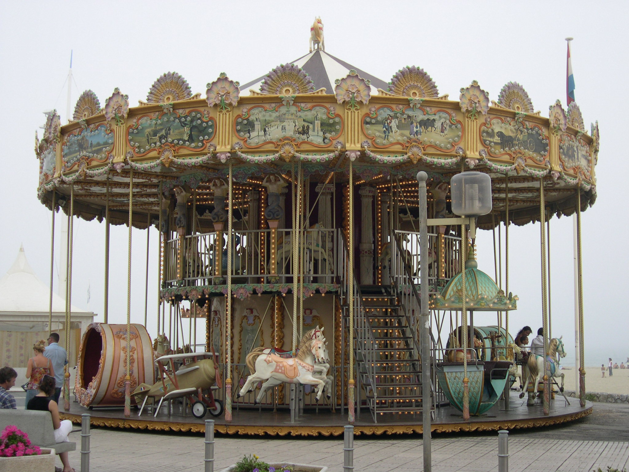 A old-fashioned style carousel in southern France.